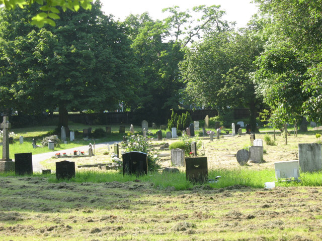 Camberwell Old Cemetery Most of the cemetery is in TQ3474 but the southern end of it reaches into this square.